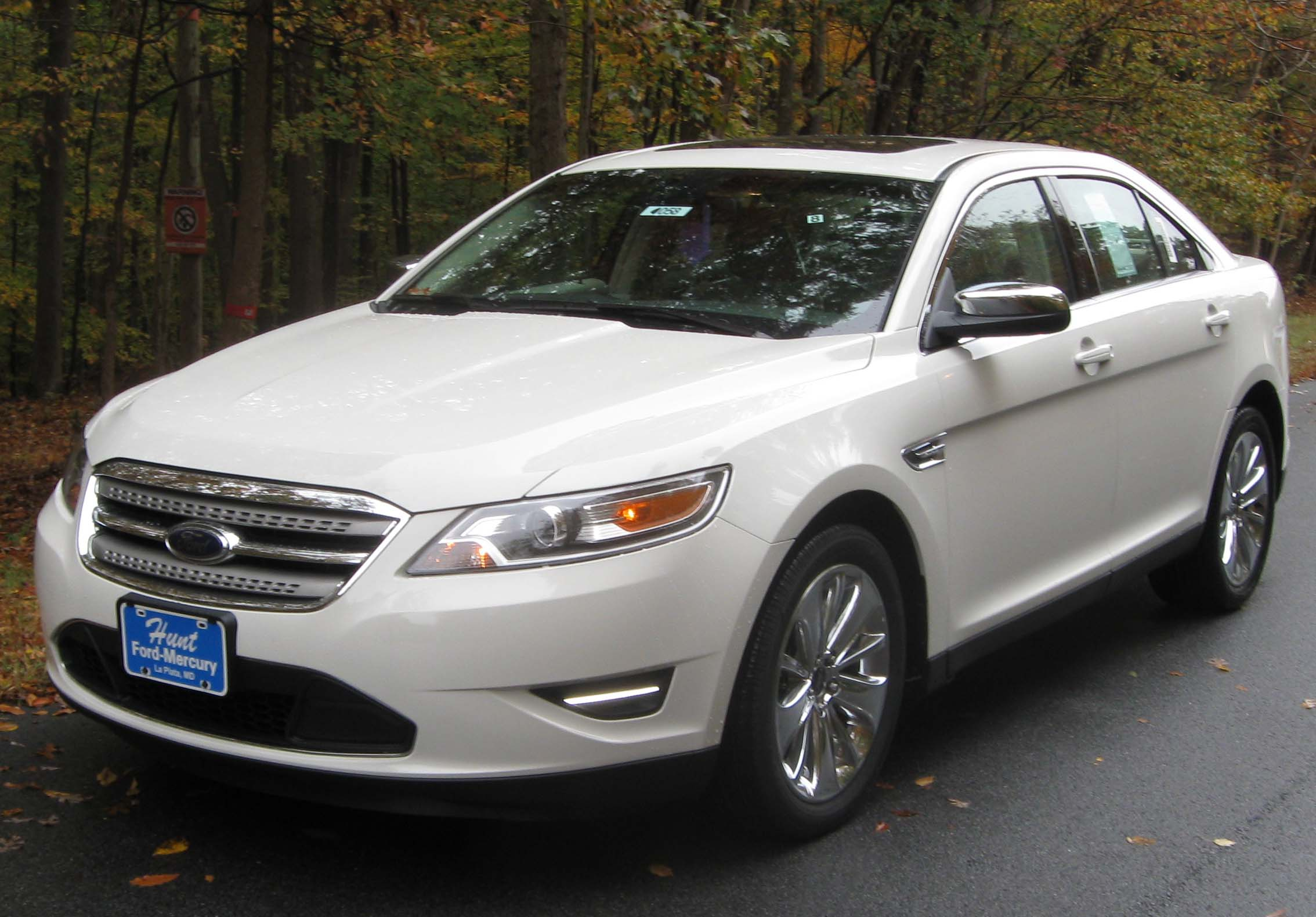 2010 Ford Taurus Limited photographed in La Plata, Maryland, USA.